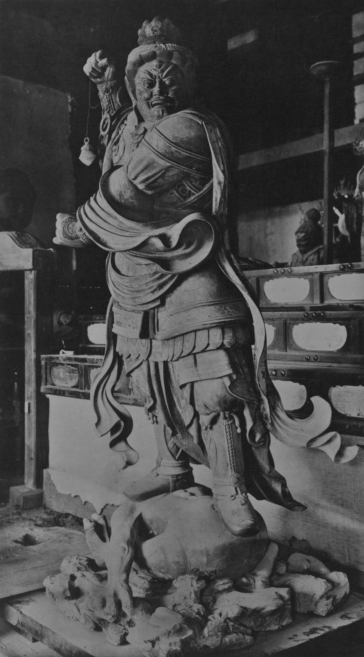 East kondō, Kōfuku-ji, Nara, Japan